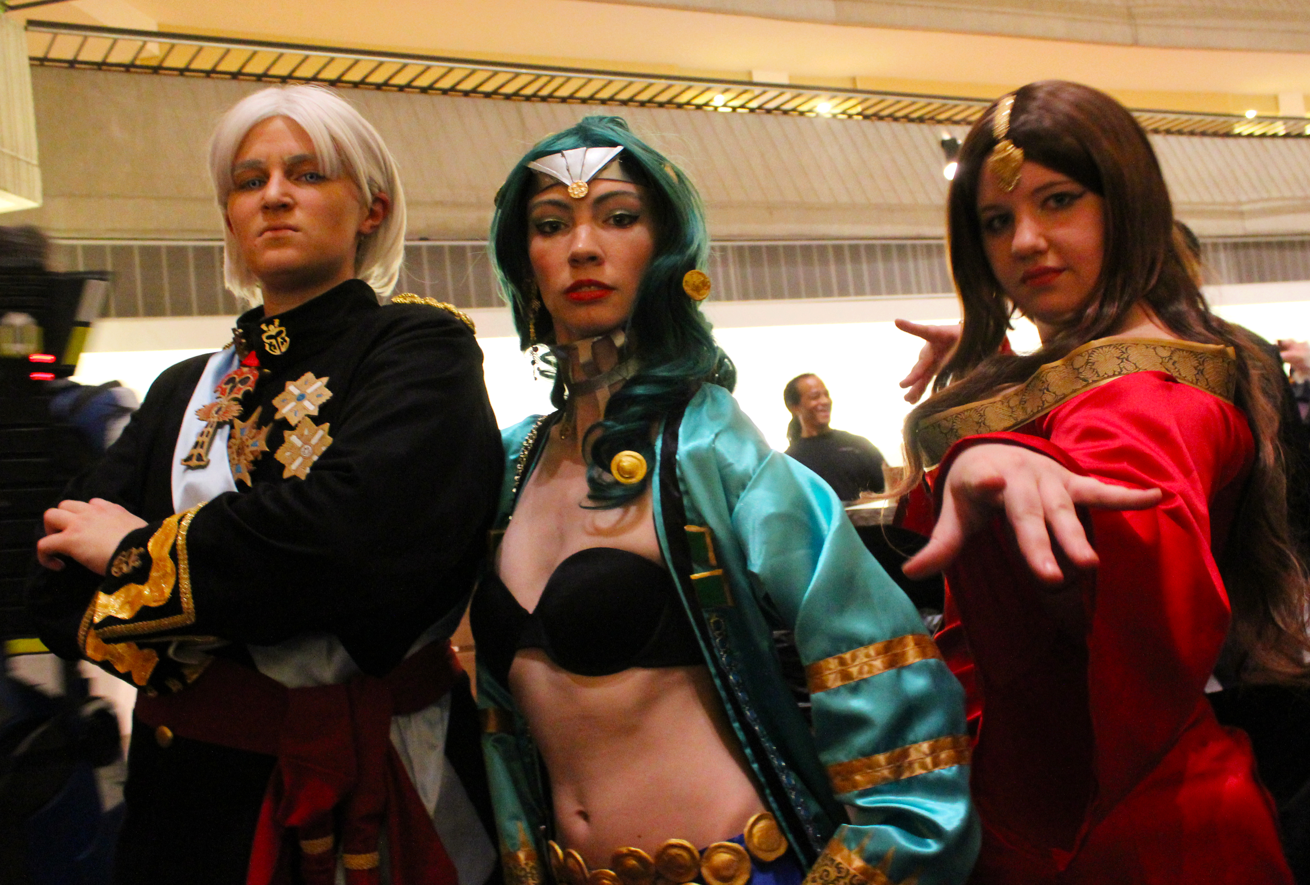 From left to right, cosplay of Magneto, Polaris and the Scarlet Witch, House of M characters.